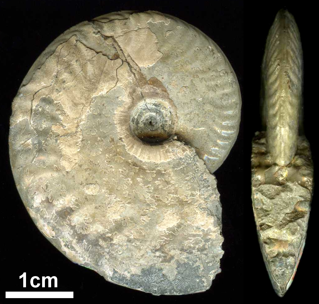 Bathonian ammonite Oxycerites sp.; Rudniki near Zawiercie (Poland)